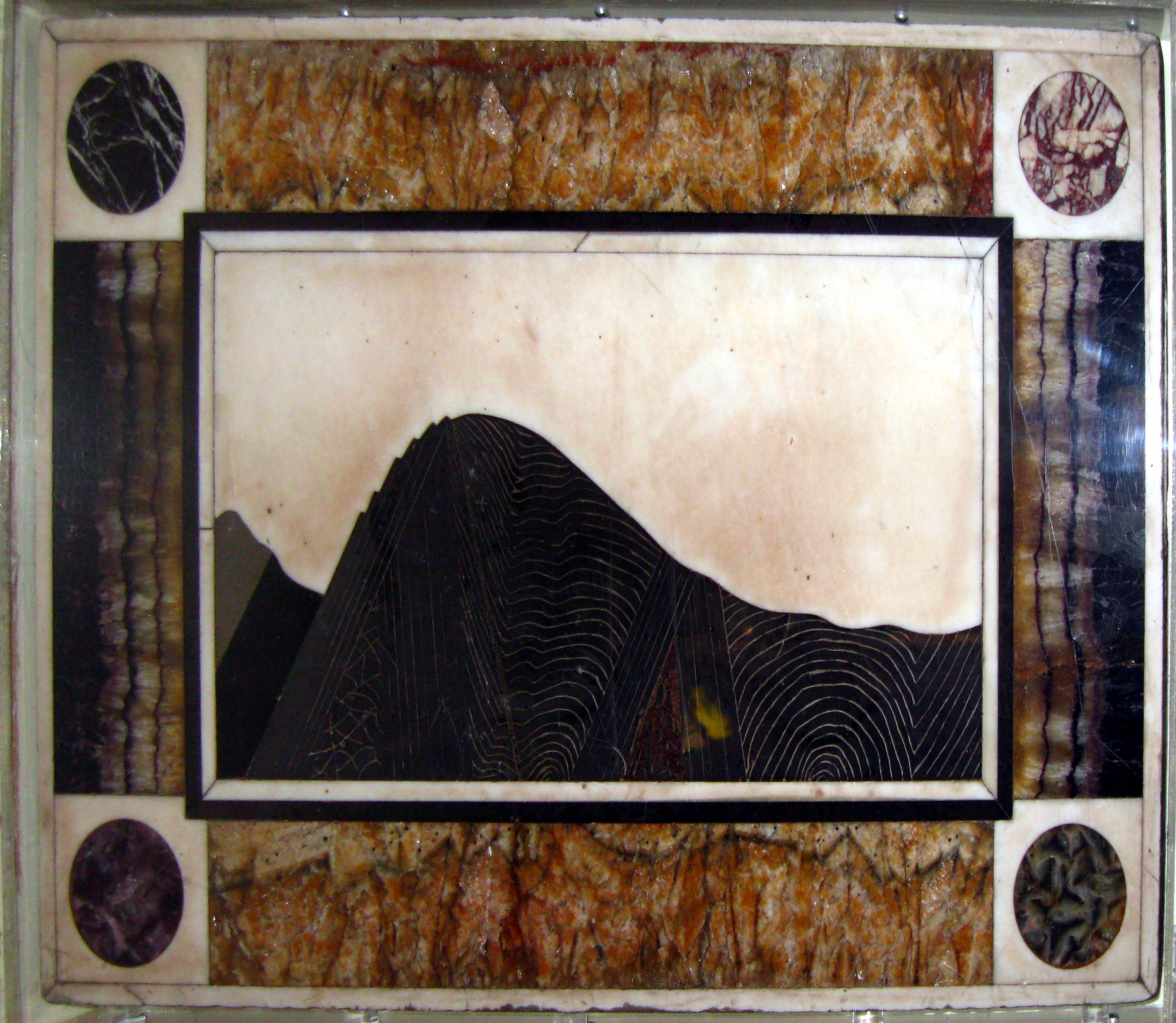 Model of Derbyshire strata of Ecton Hill, Staffordshire in Derby Museum. Made by White Watson or Brown, Mawe & Co or ???